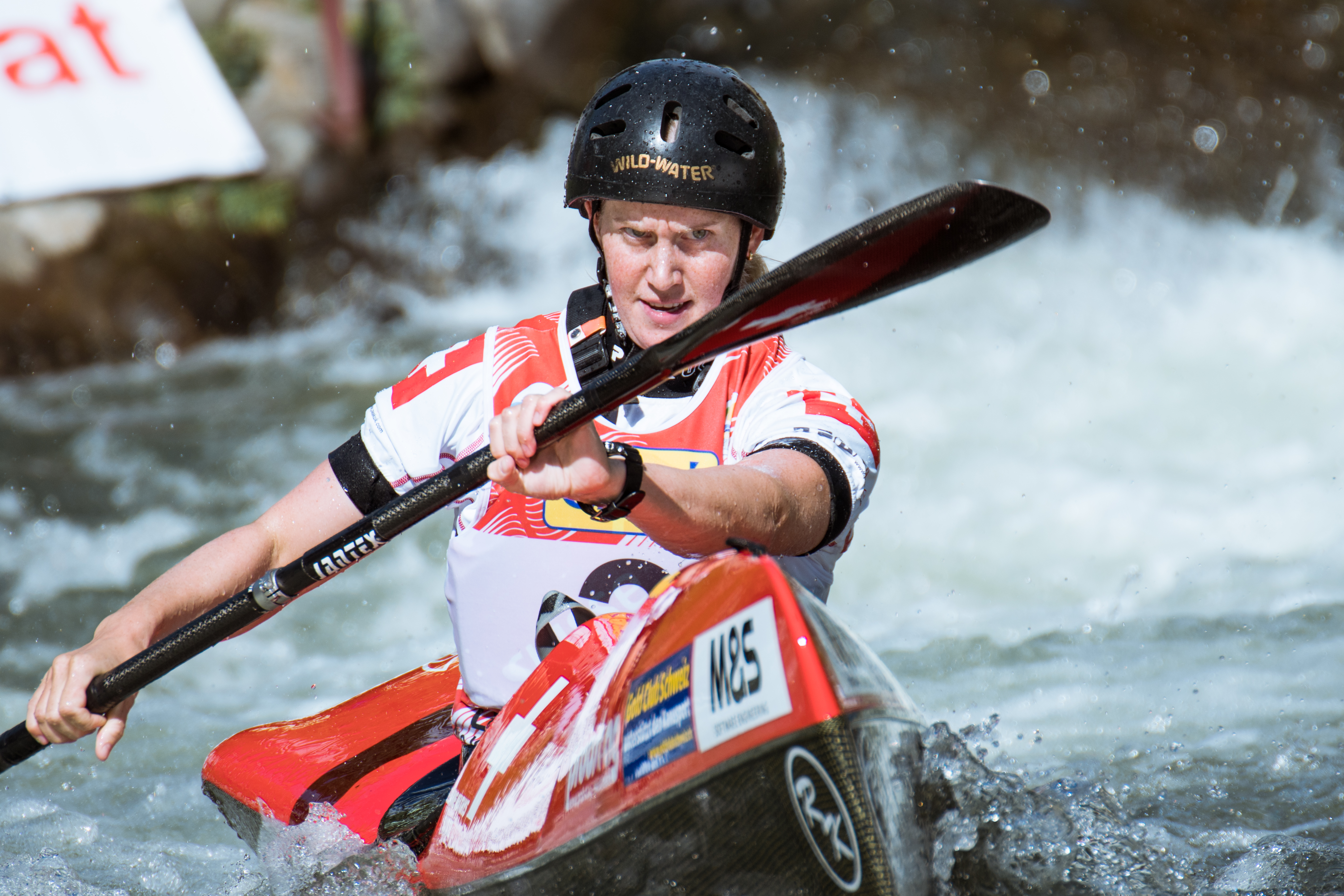 Melanie Mathys during the 2019 Canoe Wildwater World Championships in La Seu d'Urgell, Spain.